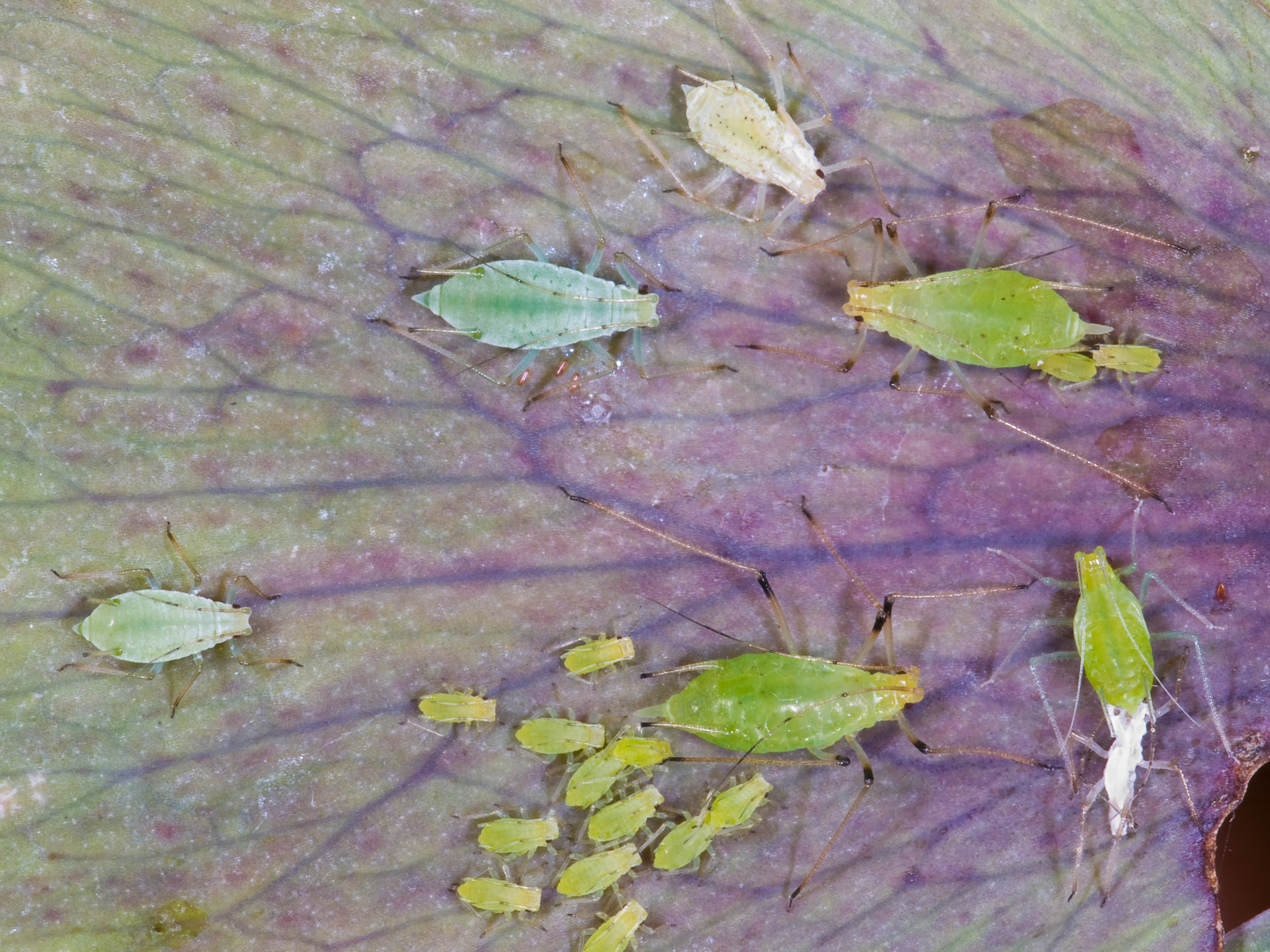 Aphis rosae on a Helleborus niger. Note eggs, juveniles, adults and molting aphid. Picture taken in Ghent, Belgium.